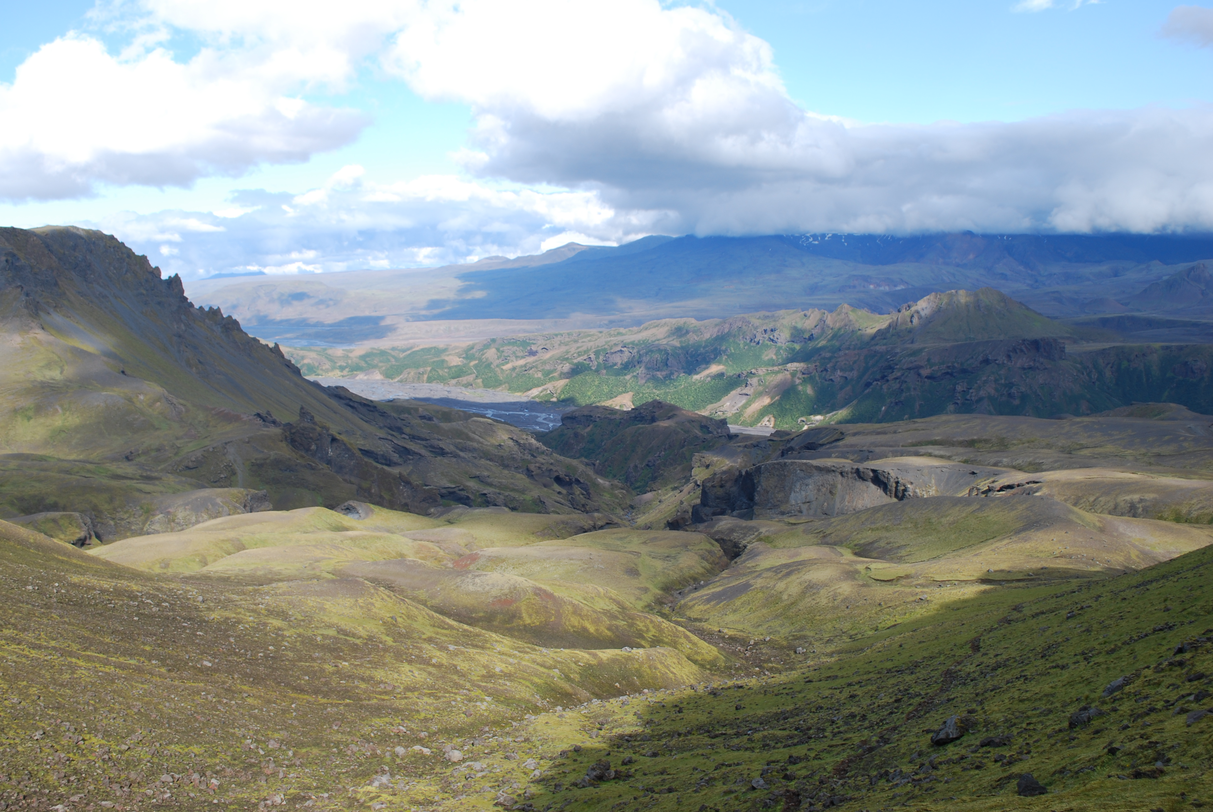 Valley Þórsmörk photographed from Fimmvörðuháls where is famous turist path, Southern Iceland.